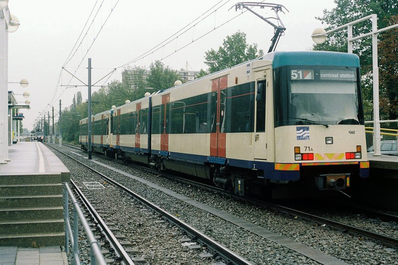 Old picture made with my 1975 Nikon F2S.